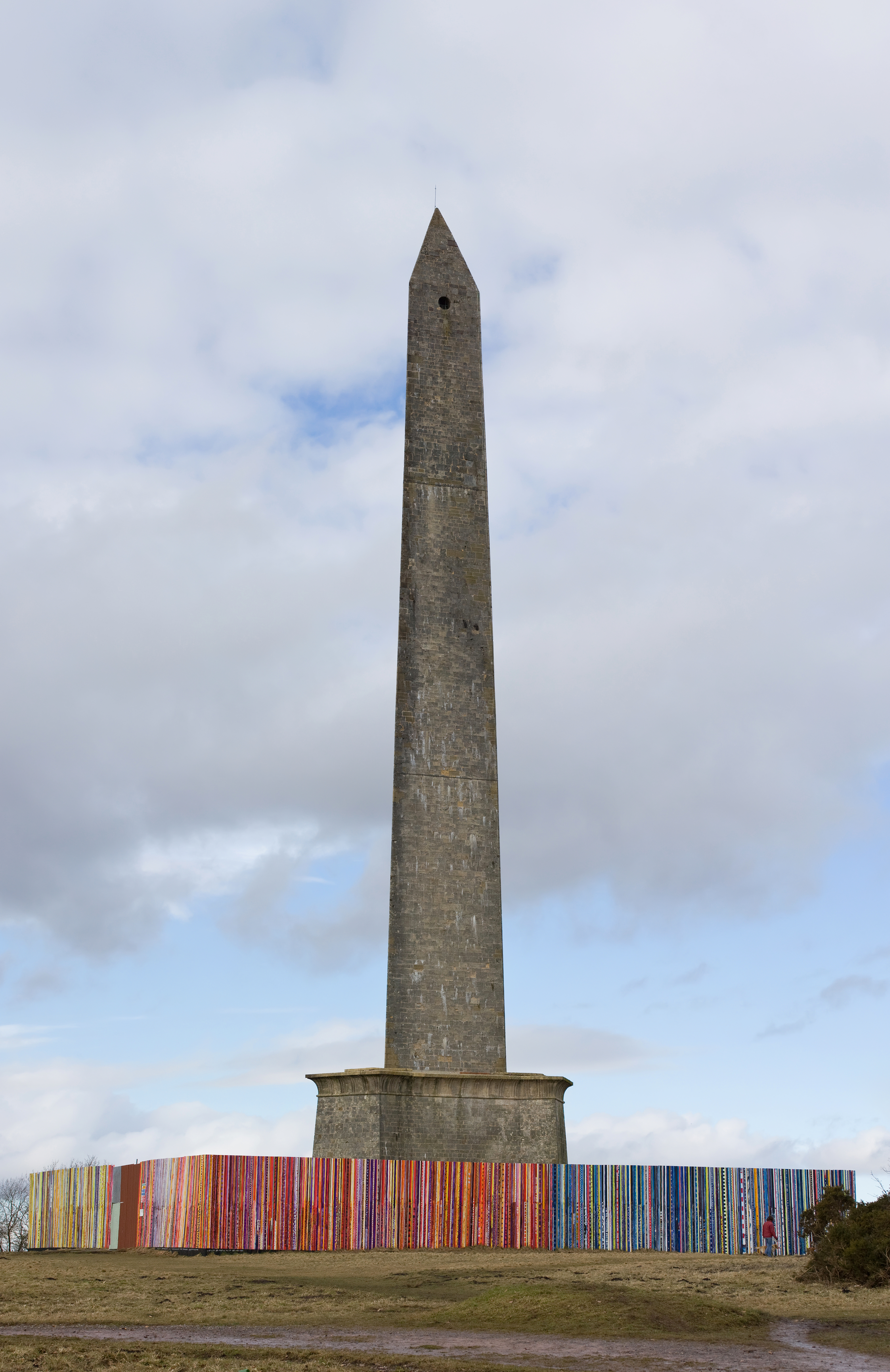 Wellington Monument in Somerset, UK. 53 metres high and situated in the Blackdown Hills near Wellington, it was erected (from 1817 to 1854) in tribute to the Duke of Wellington, the town of Wellington having given its name to the dukedom. Stairs rise to the top of the monument, but following concerns over the stability of the obelisk, the base of the monument was closed to the public in 2007. Renovations are currently ongoing. The corrugated steel barrier was painted by children from local schools.